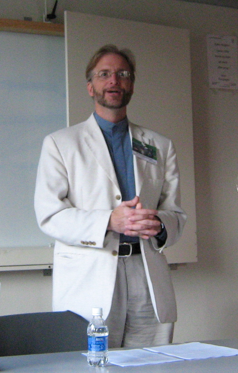 Portrait of Bruce Holland Rogers while giving a talk about short short stories at Eurocon 2007 (Copenhagen)